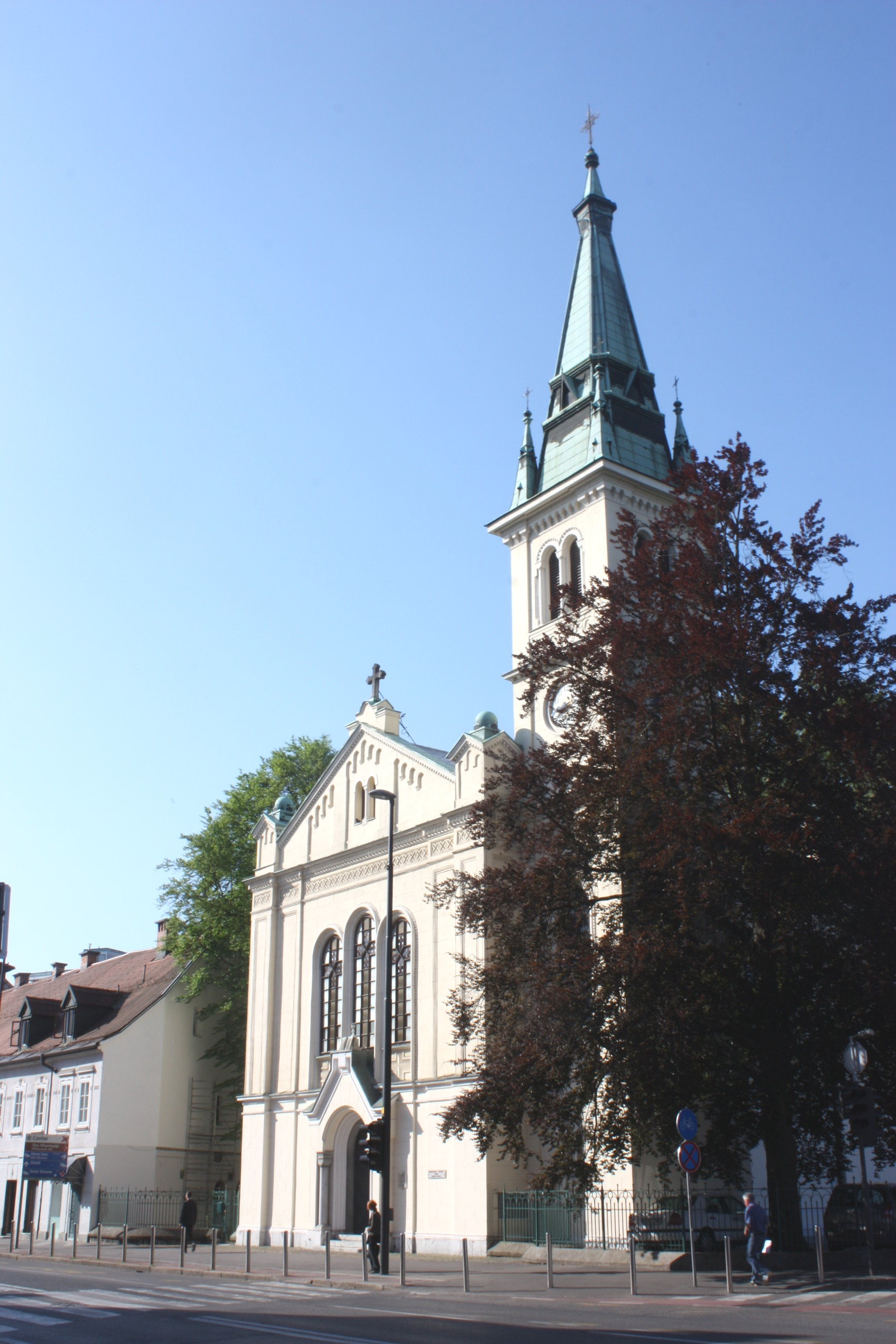 Ljubljana, die evangelische Kirche